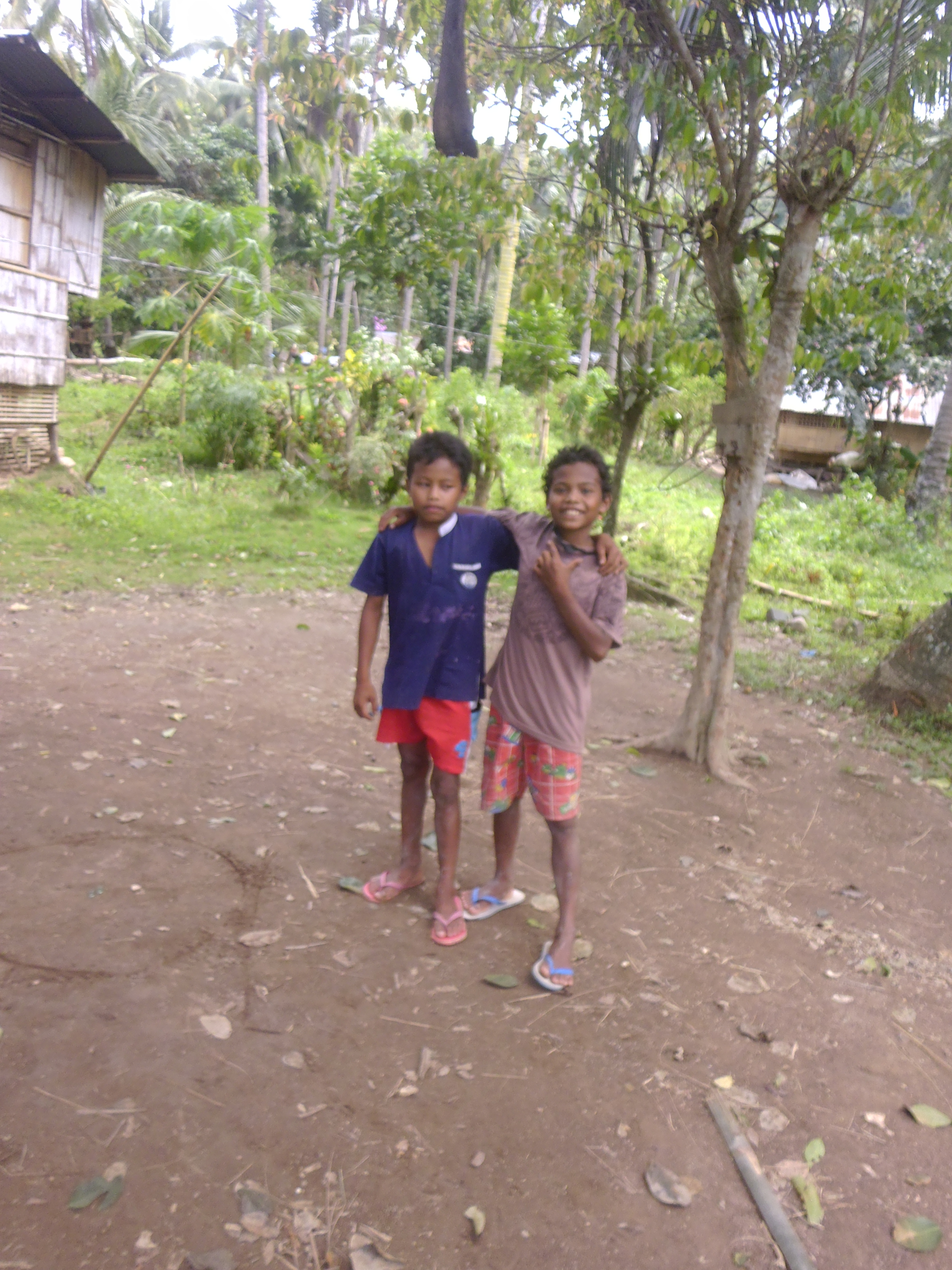 The Manobo children , a lumad tribe in the Philippines.